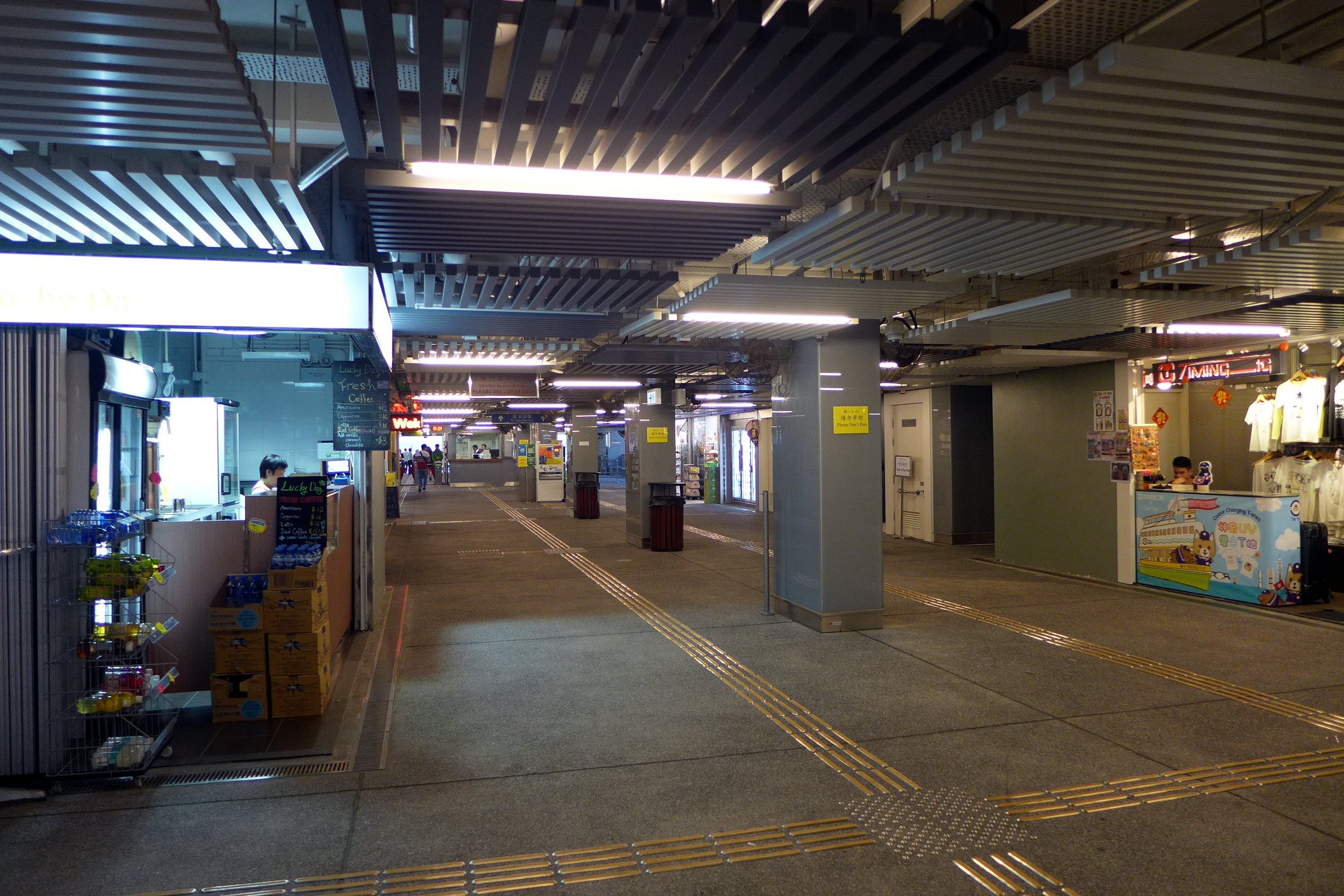 New Wan Chai Pier Shops